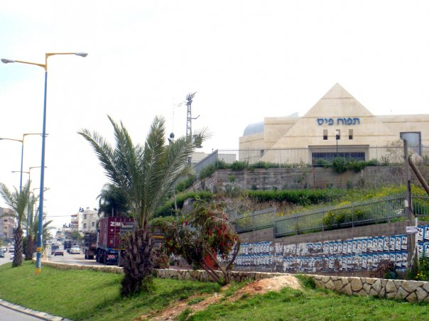 tpuah pais taybe